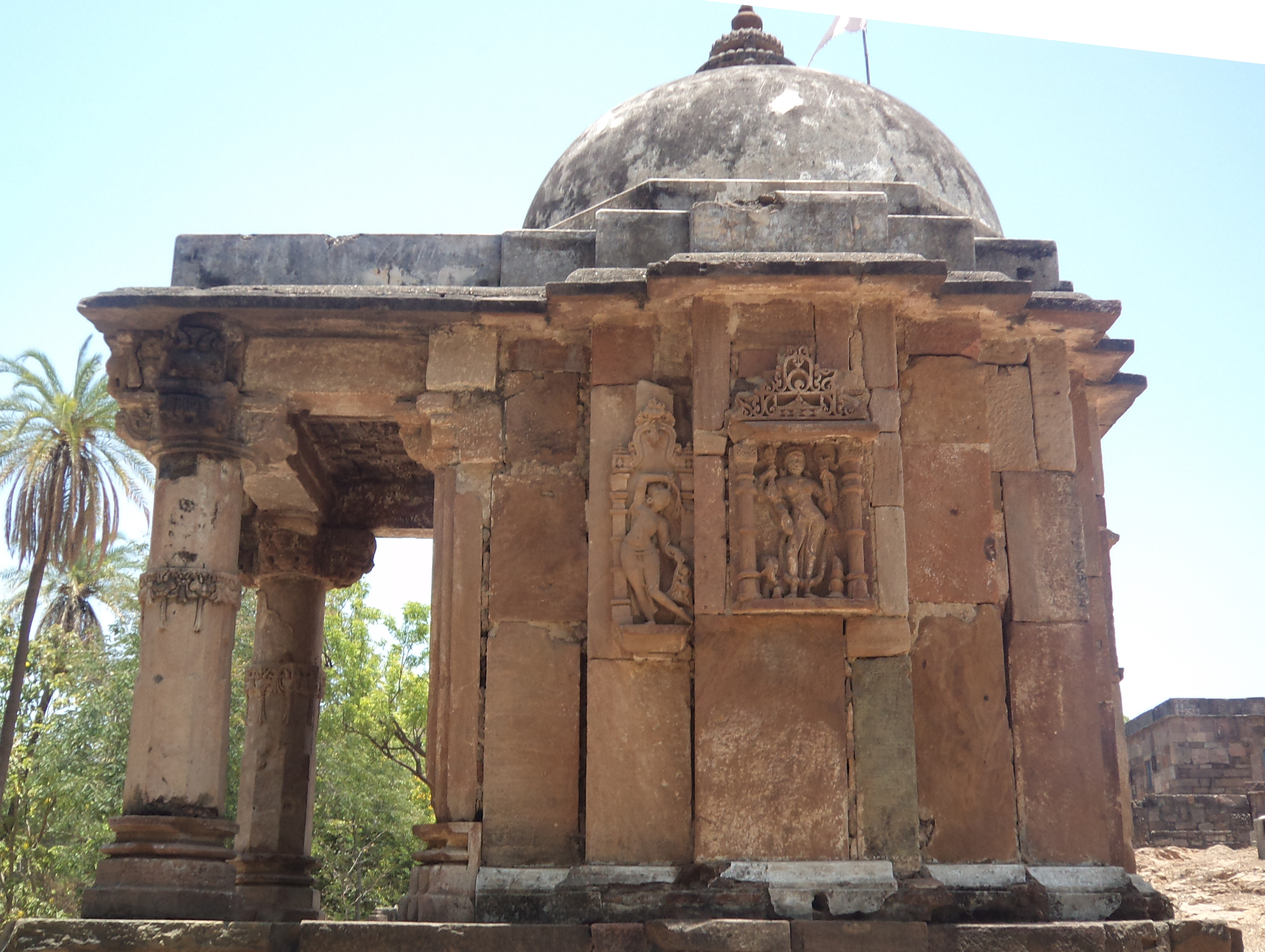 This is the Old Hindu temple at Kaleshwari in Mahisagar District of Gujrat, India